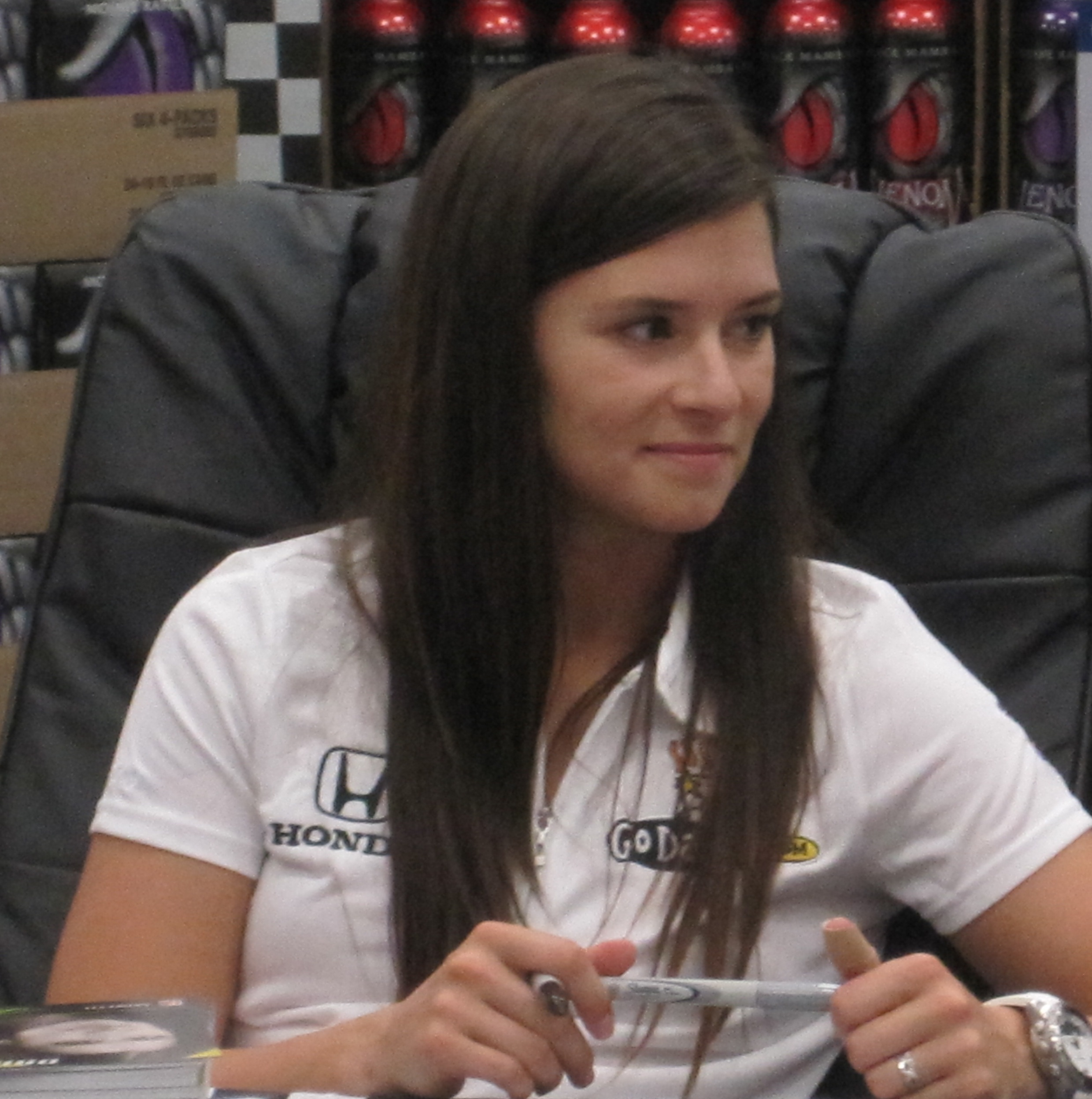 Andretti Autosport's Danica Patrick at an Andretti Autosport team autograph session at Meijer in Carmel, Indiana on Thursday, May 27, 2010.